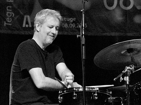 Tony Buck playing in Aarhus Denmark